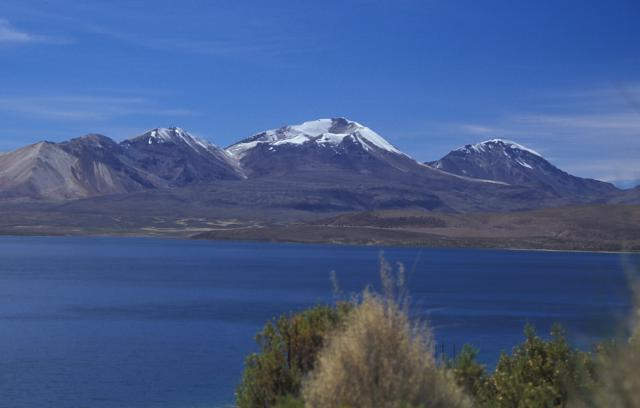 From left to right, 5730-m-high Volcán Humarata, 6052-m-high Volcán Acotango, and 5990-m-high Cerro Capurata volcanoes.